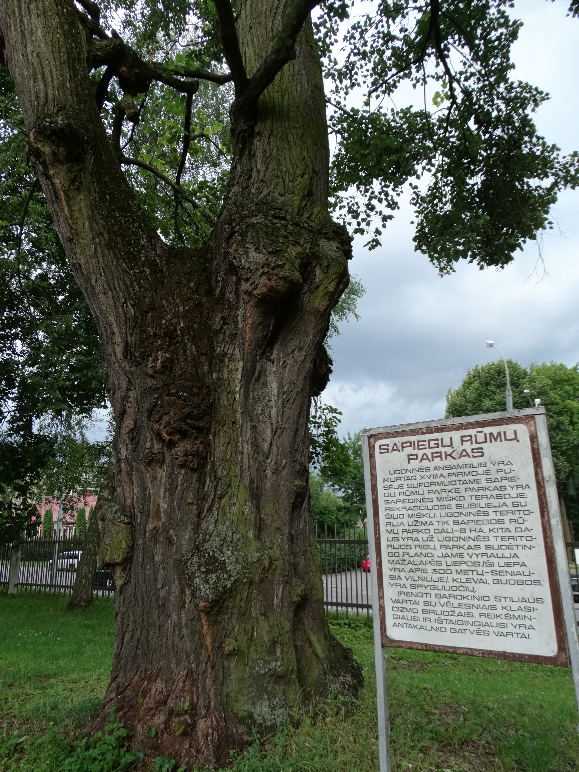 Lime tree by Sapieha Palace in Antakalnis, Vilnius, Lithuania